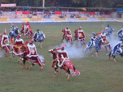 Cavalhadas, a popular festival involving mounted horses, in Brazil.